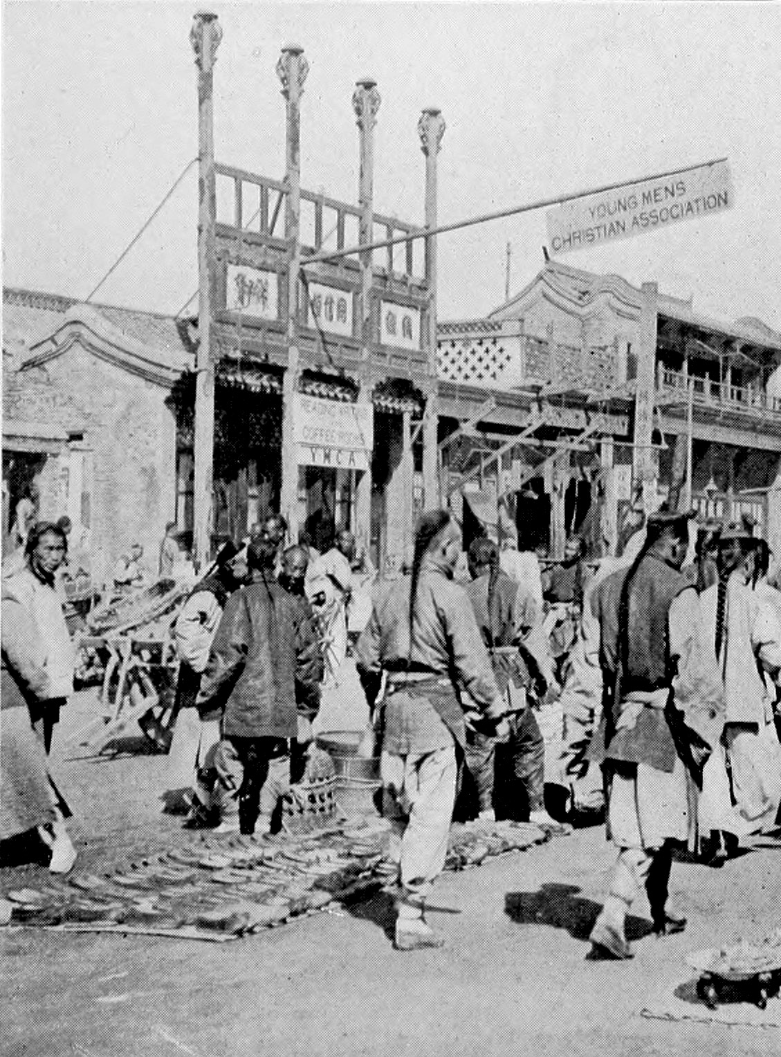 Photo from China in Convulsion (1901)